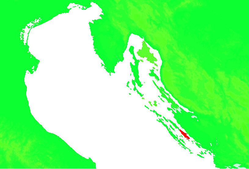 Island of Croatia Croatia - Pasman.PNG